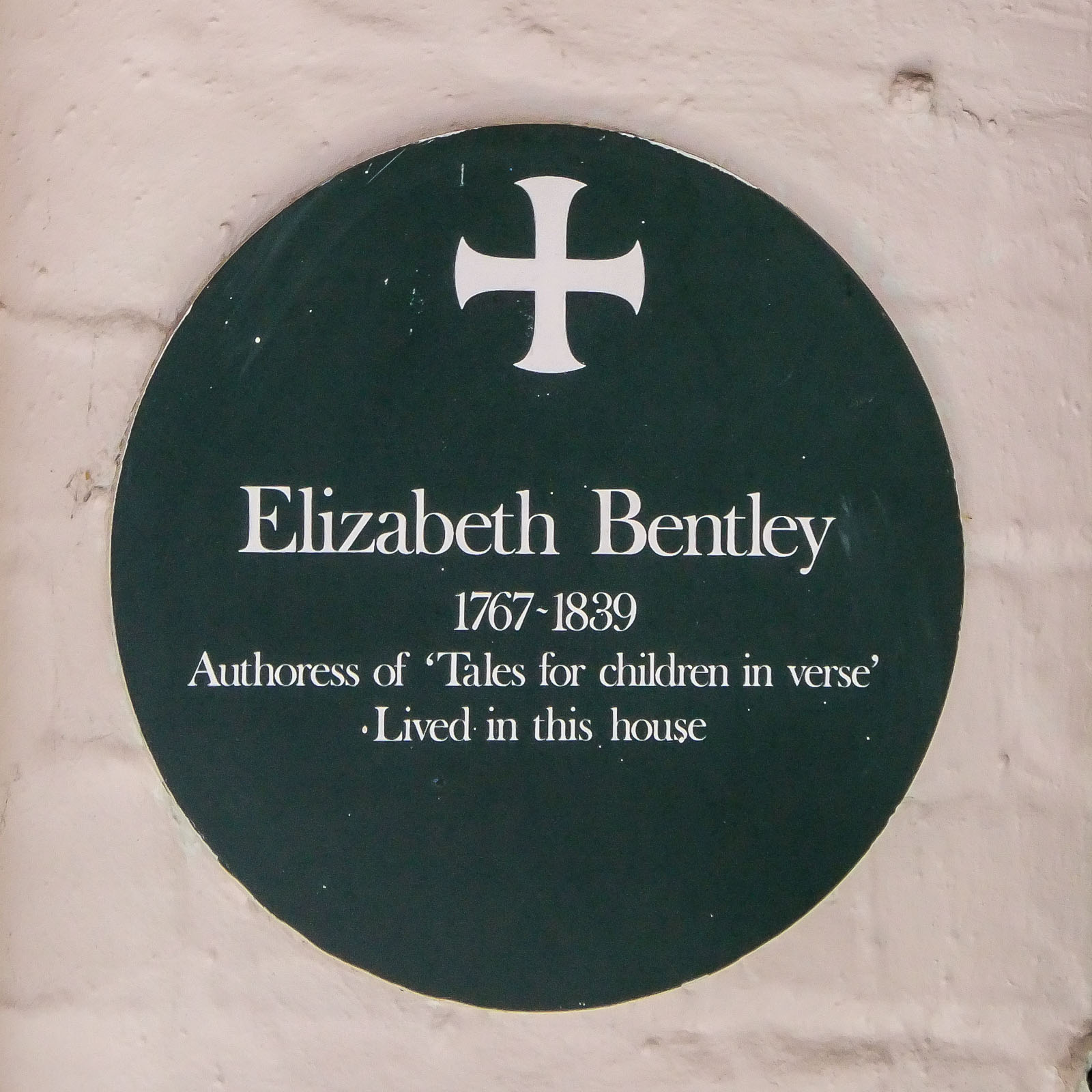 The authoress of "Tales for Children in Verse" lived in this house - today the premises of the Littlehaven Coffee Co., at 45 St Stephen's Square, Norwich